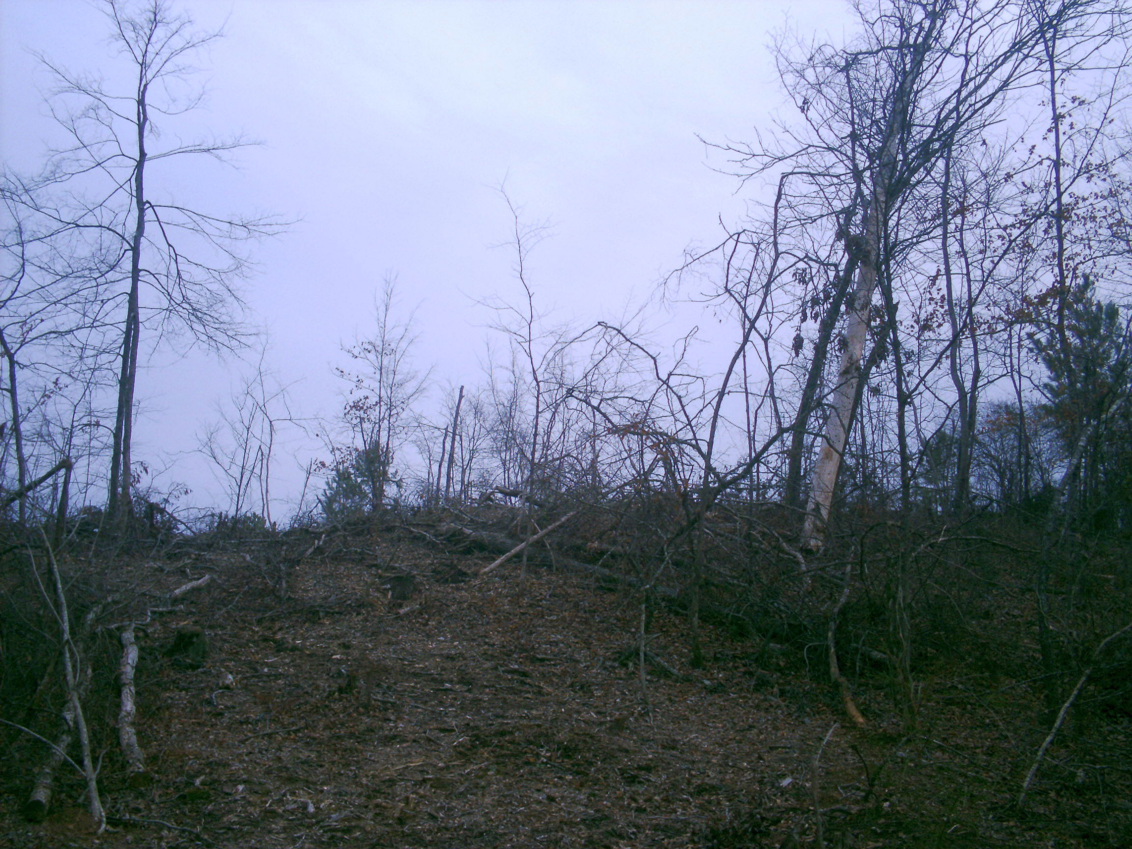 Newly cleared forest on Loop 360 in Marshall, Texas — in the :Piney Woods. Most of the mature trees have been cleared. The litter layer of the former forest has already begun to wash away due to recent rains. Attributions should be made to Jay Carriker not JCarriker and should have a link back to both his user page and the original wikipedia or commons page of the image. If you copy this photo, please notify this user through either his talk page or the email this user option, so that he can make sure that the image is being used under its terms.